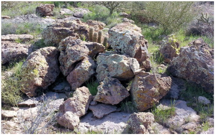 Boulder Pile covers mineralized zone in the Peralta battle ground.